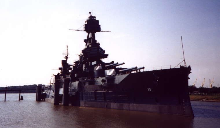 a larger image of my photo of USS Texas taken May 2001